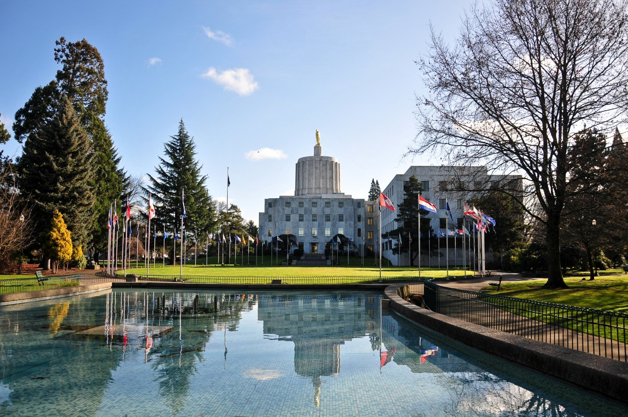 View of the west side of the State Capitol in Salem. Waite Fountain in foreground.